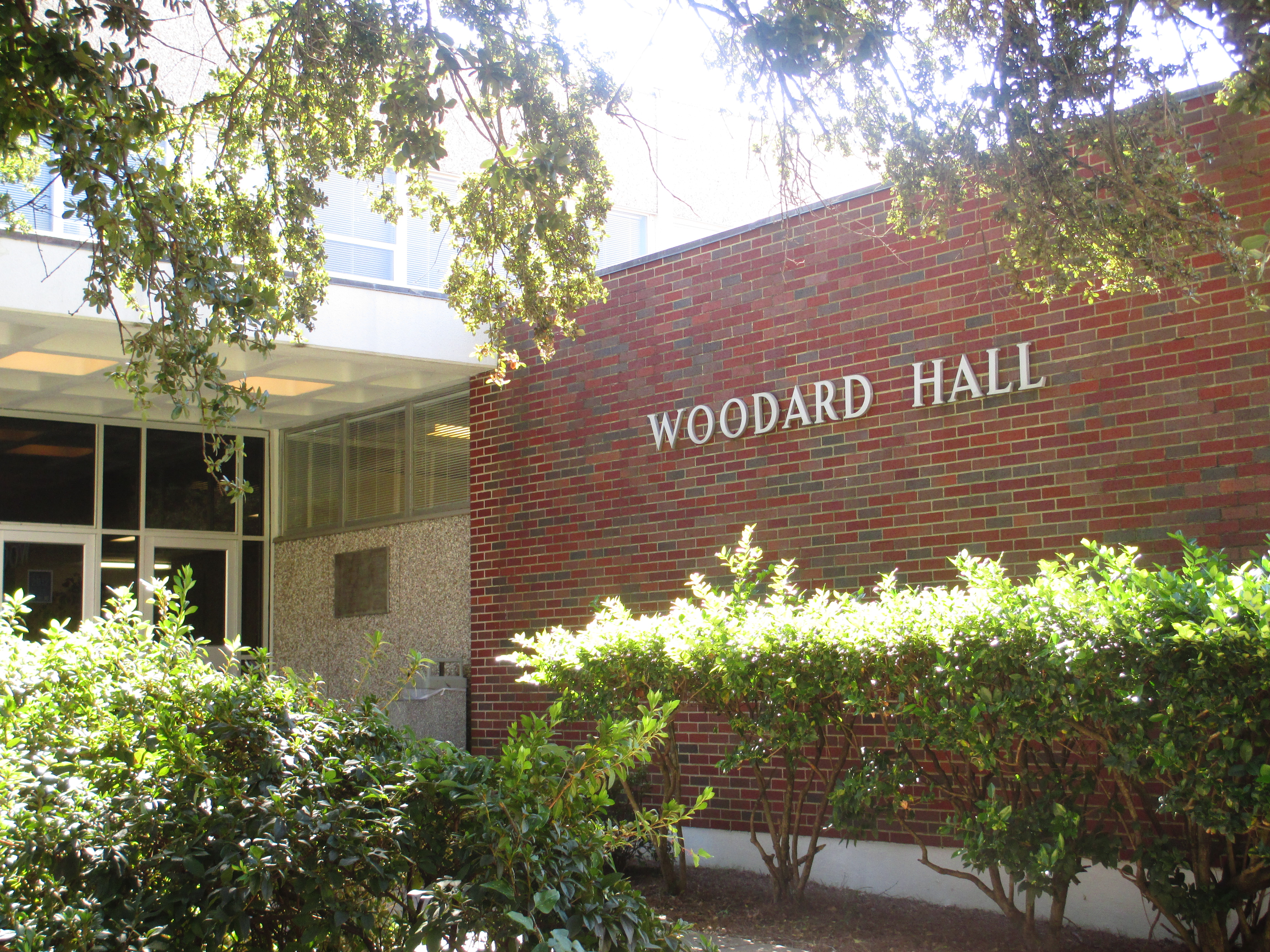 I took photo with Canon camera of Woodard Hall at Louisiana Tech University in Ruston, LA.